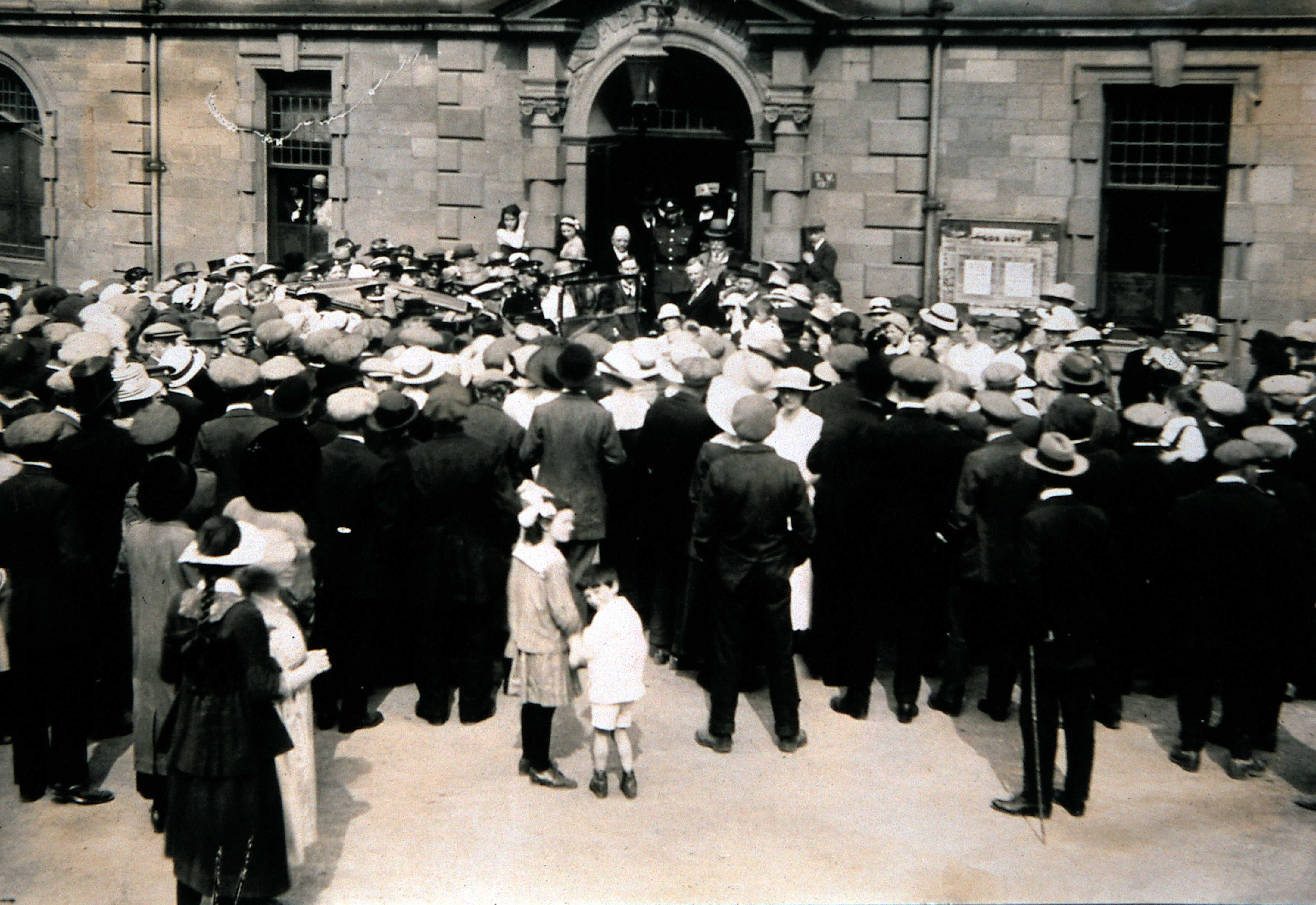 John Daykins VC welcomed at Jedburgh Town Hall - date very likely 1918